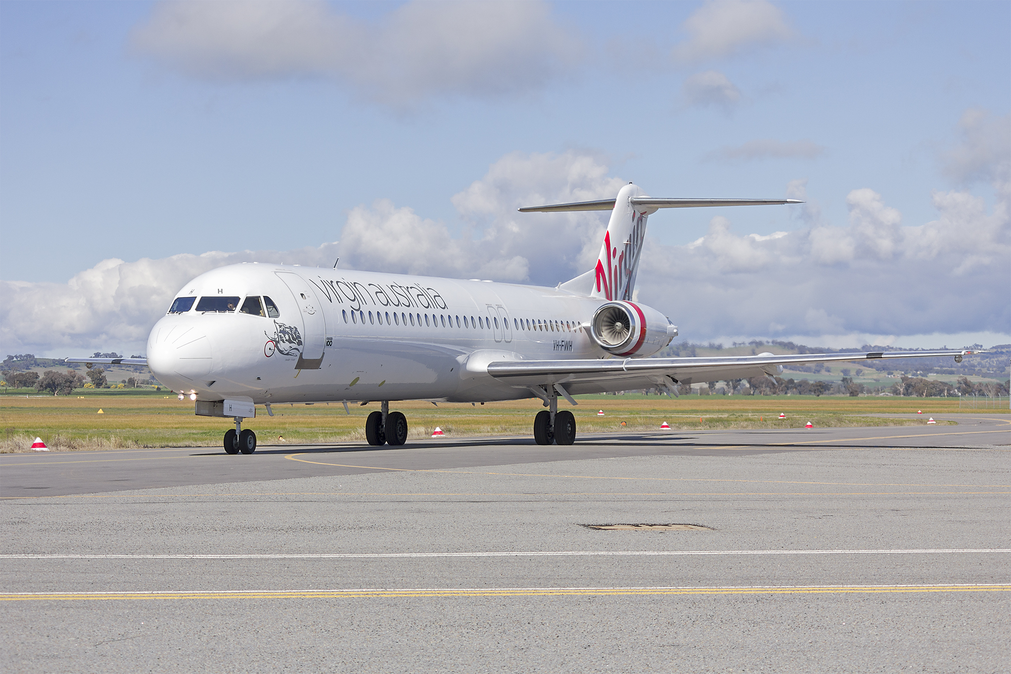 Virgin Australia Regional Airlines (VH-FWH) Fokker 100, with newly applied VA livery and named 'swan river', taxiing at Wagga Wagga Airport.